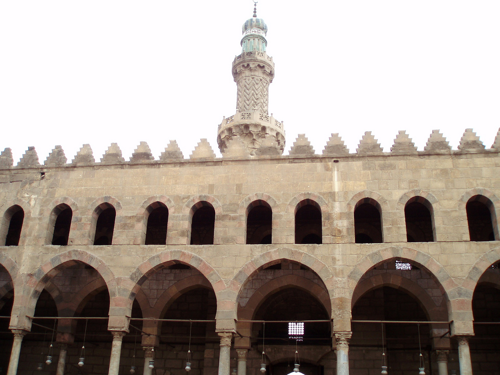 Mosque of an Nasir Muhammed, Cairo